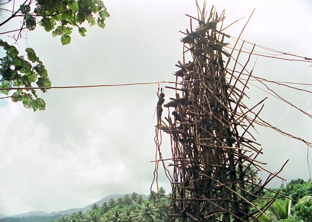 The Tower, Pentecost Island Vanuatu 1992